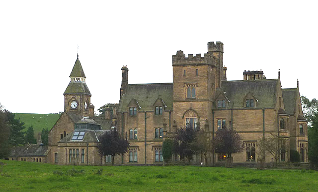 Photograph of the entrance front of Sedgwick House; enhanced by myself